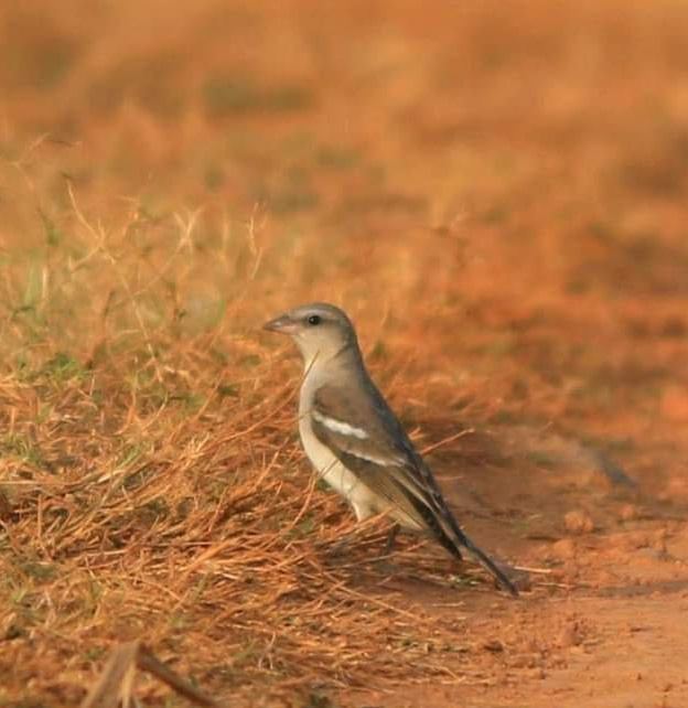 Chestnut-shouldered Petronia